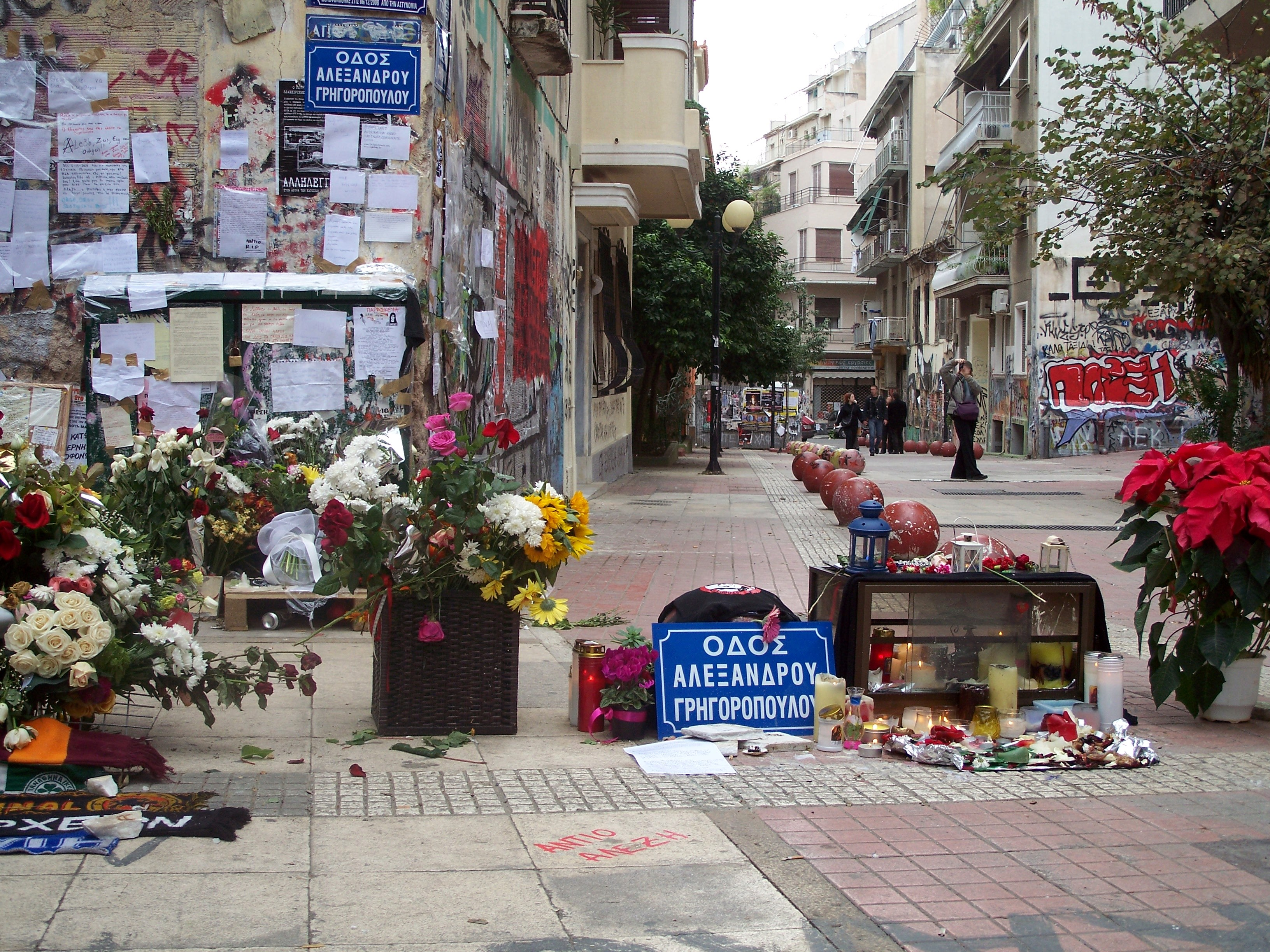 Memorial and offerings at the spot on TZavella street, Athens, where Alexandros Grigoropoulos was killed.